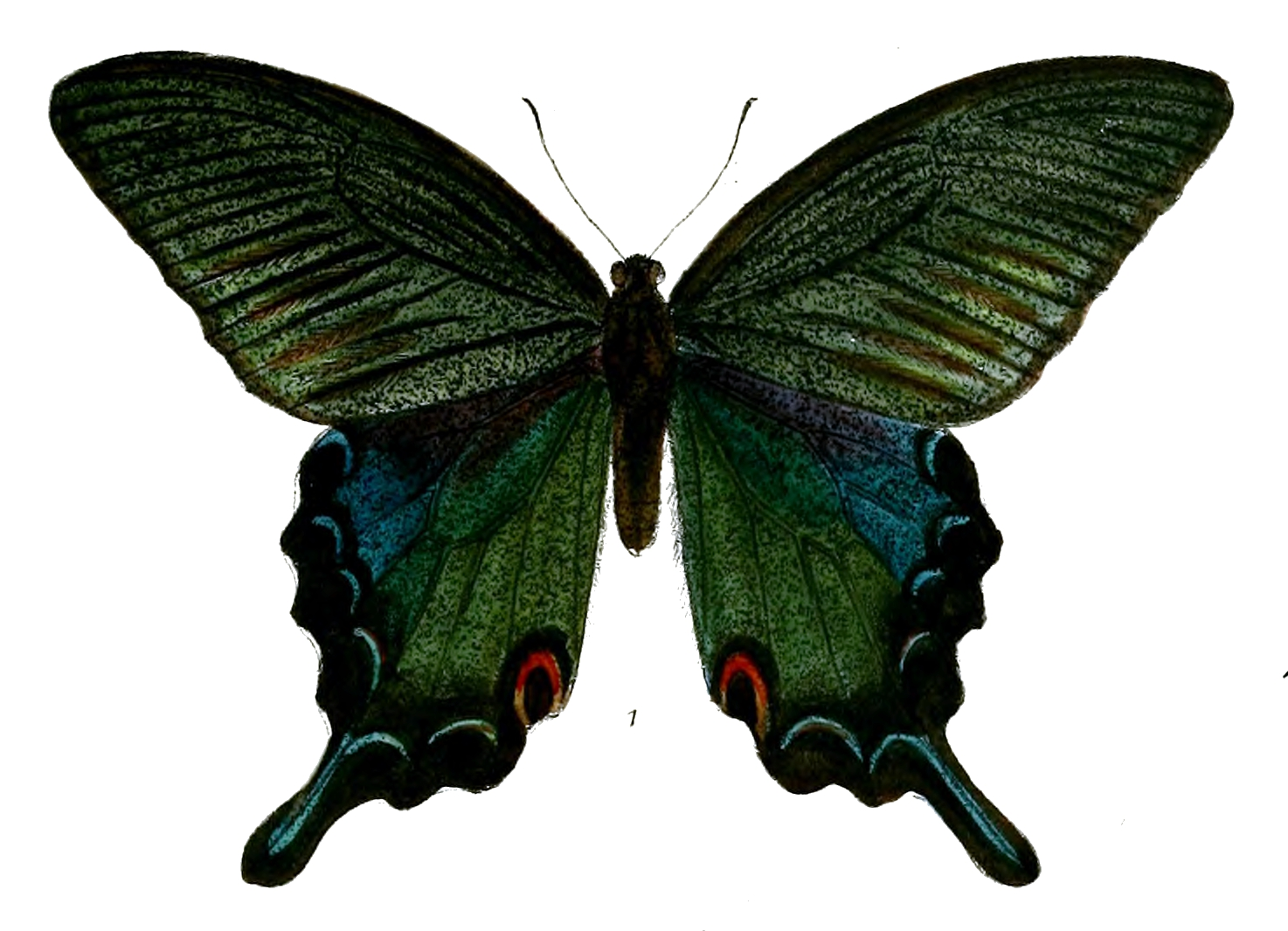 Sarbaria gladiator = Papilio bianor (male)